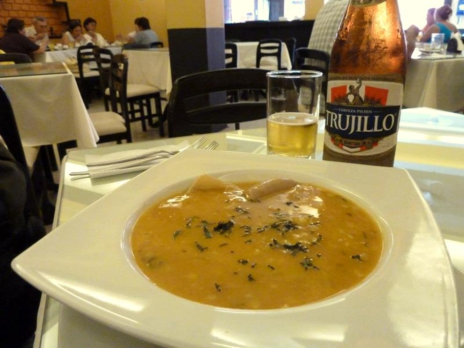 Shambar en Trujillo